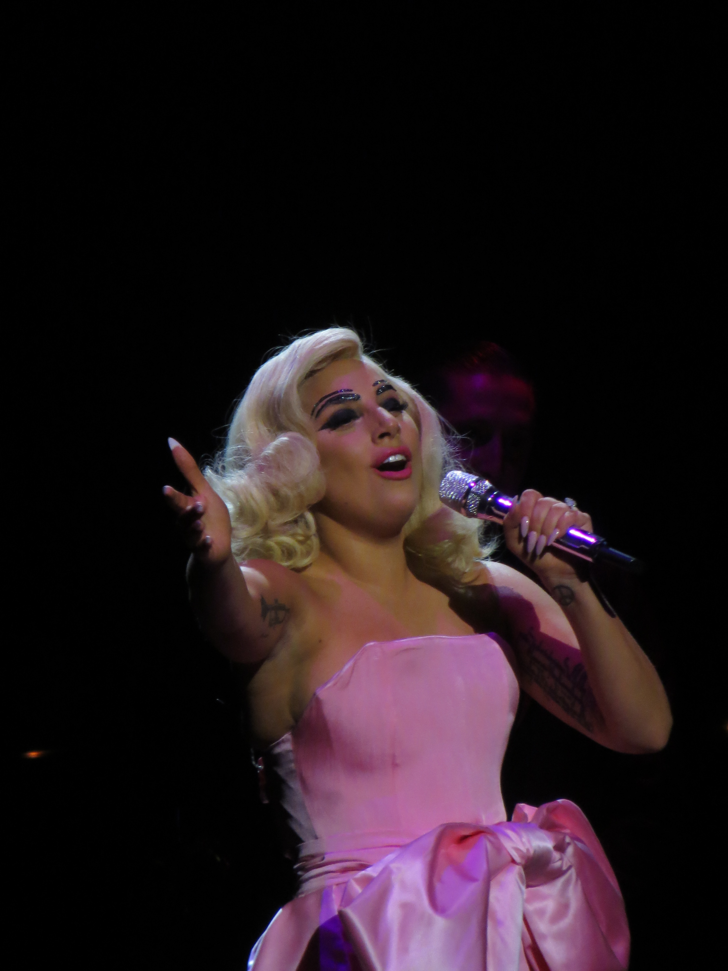 Tony Bennett & Lady GaGa, Cheek to Cheek Tour, London Royal Albert Hall, 8 June 2015.